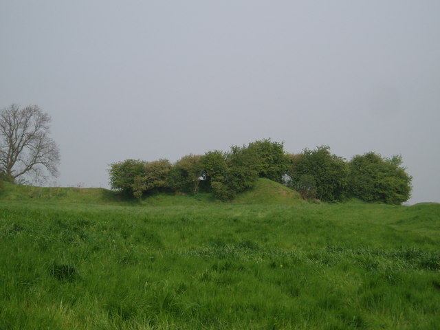 Castle mound at Laxton, Nottinghamshire. The mound is the site of a 11th century castle which consisted of motte with inner and outer baileys. A manor house was built here in the 17th century which utilised fish ponds said to pre-date it.